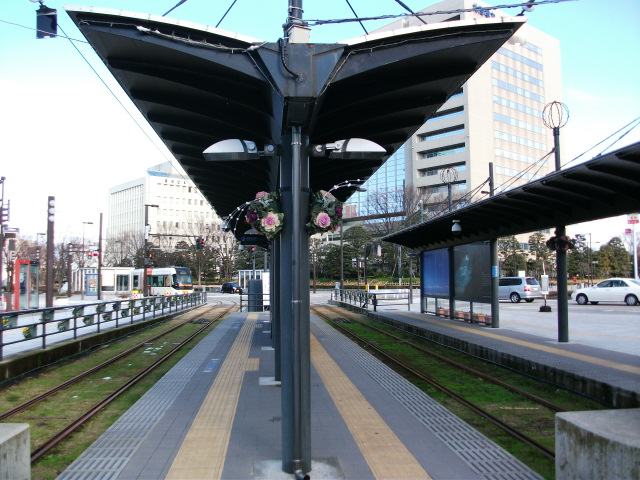 Toyama Light Rail Toyama Port Line Toyama Ekikita Station